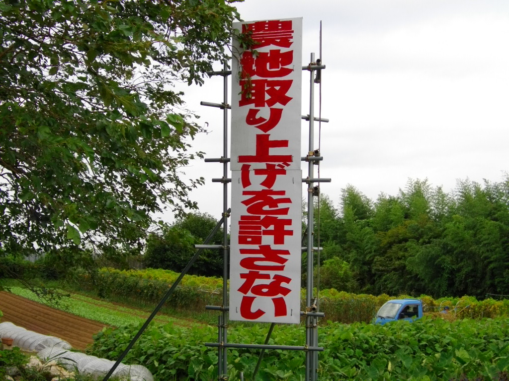 Anti-airport slogan of Sanrizuka-Shibayama United Opposition League against Construction of the Narita Airport